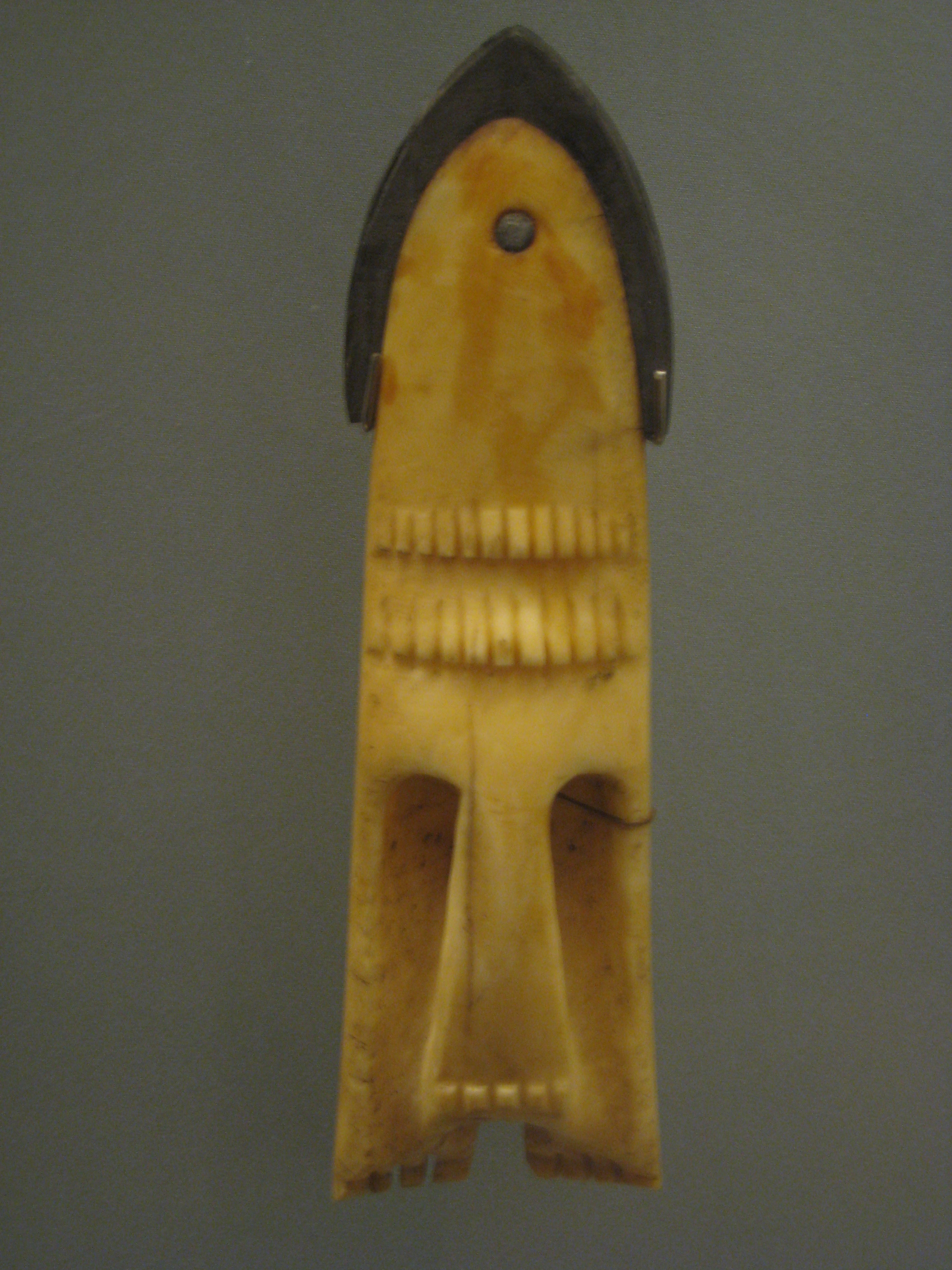 Inuit harpoon head